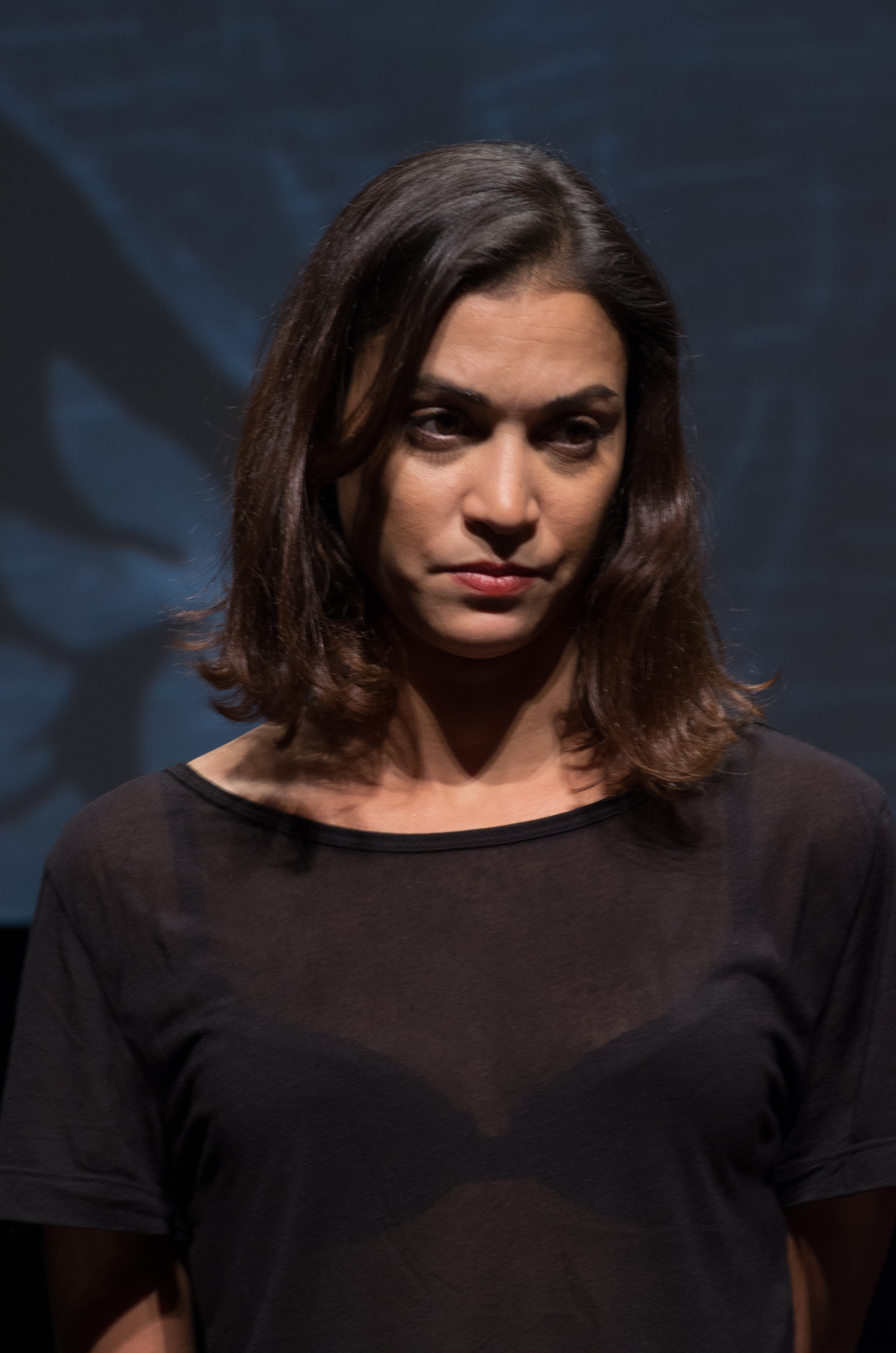 Rock The Casbah - Morjana Alaoui